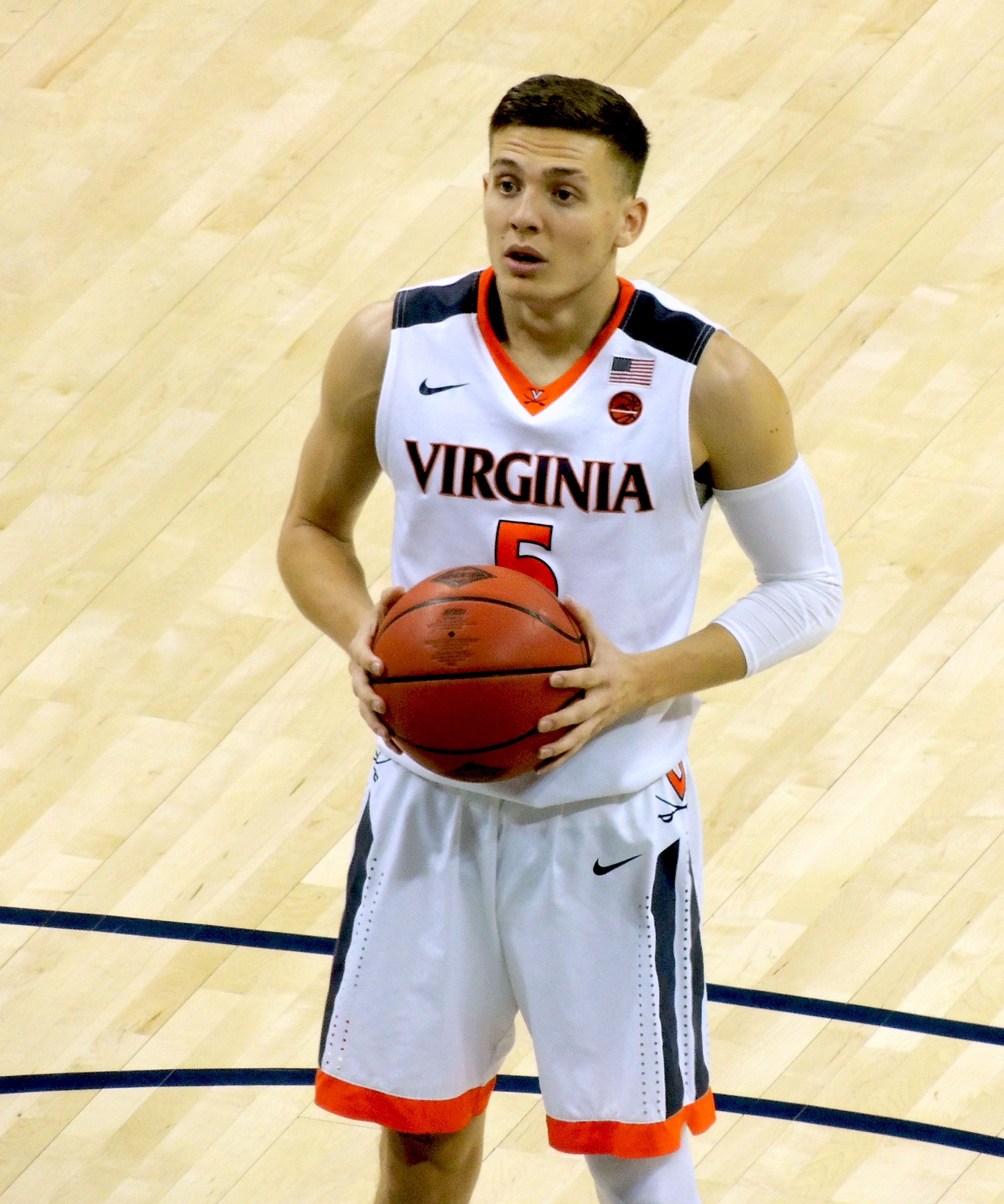 University of Virginia basketball player Kyle Guy prepares to shoot a free throw